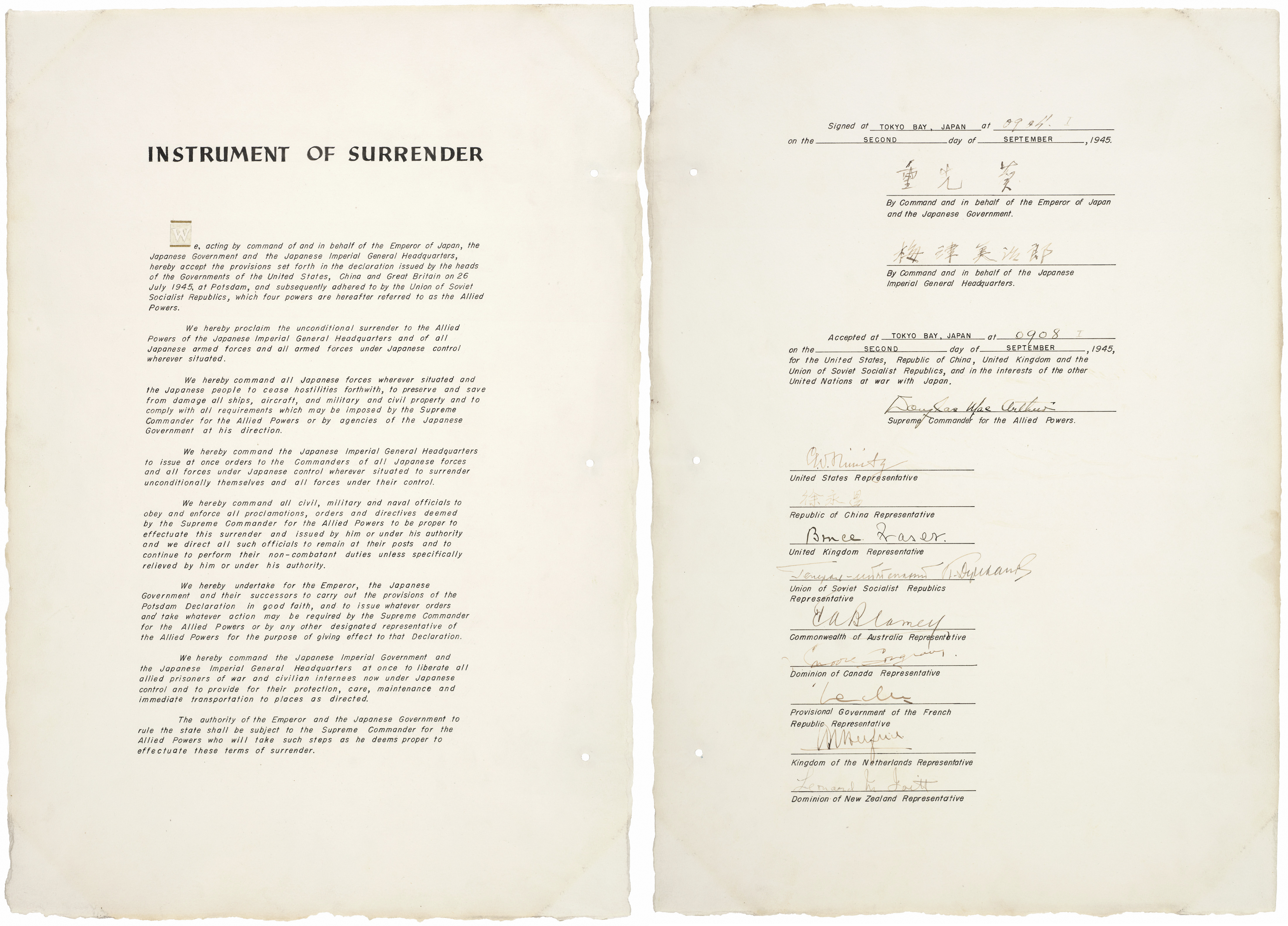 Instrument of surrender for Japan, World War II